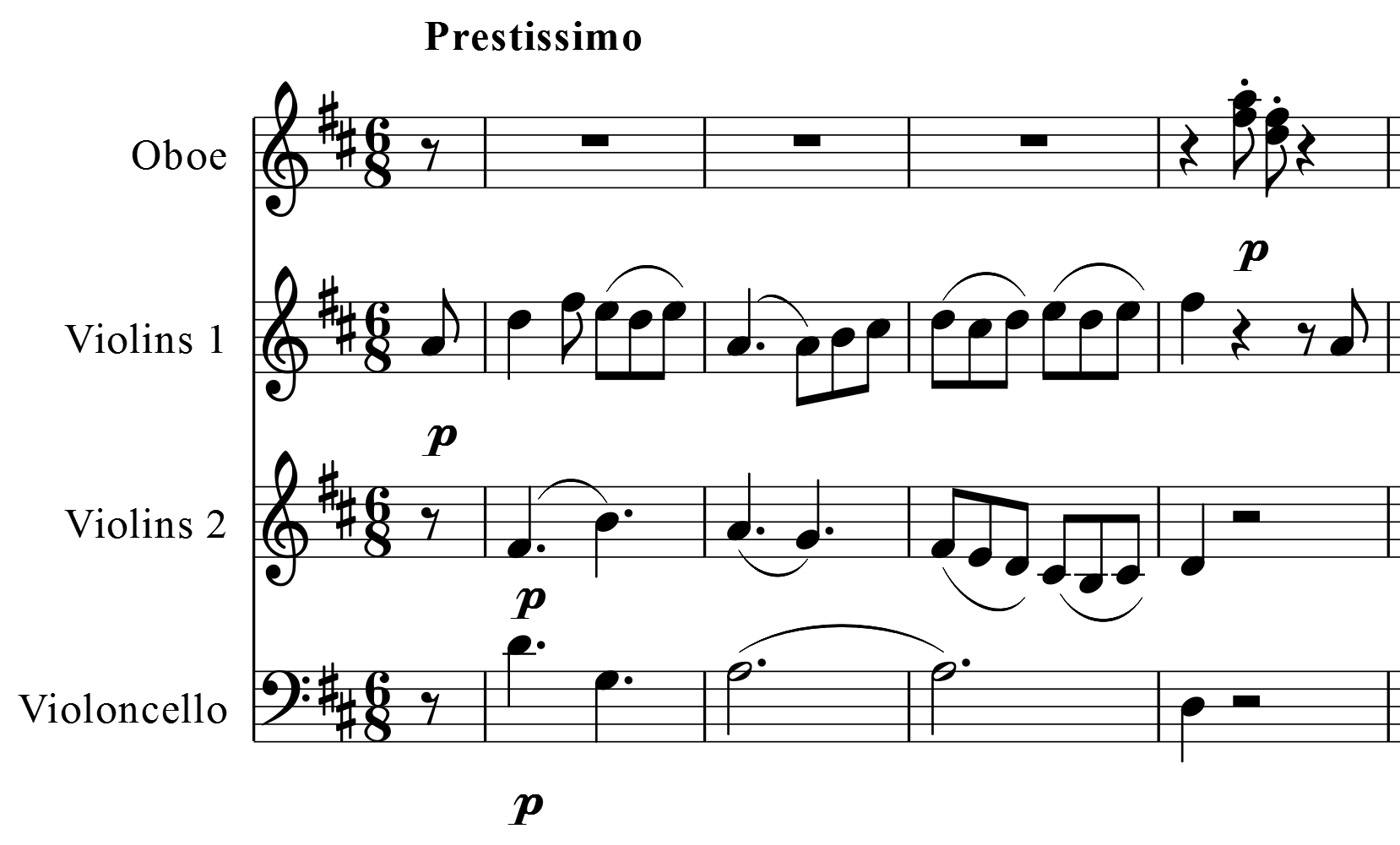 Joseph Haydn, Symphony No. 61, last movement, bar 1-4